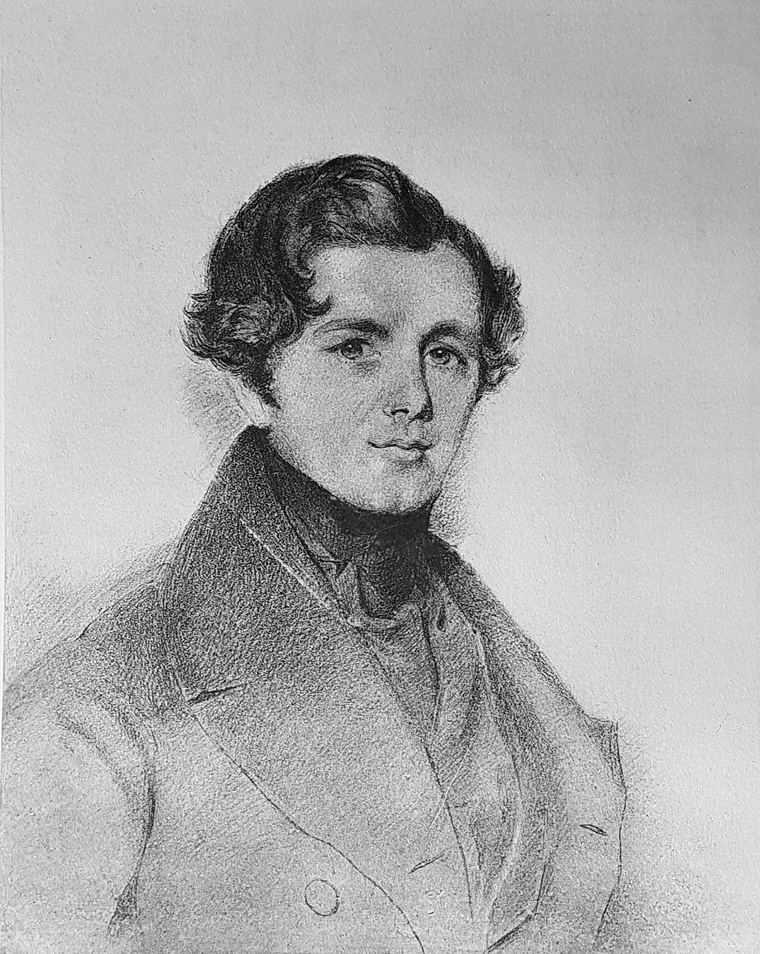 Pastel portrait of William John Burchell by John Russell RA (1745–1806)